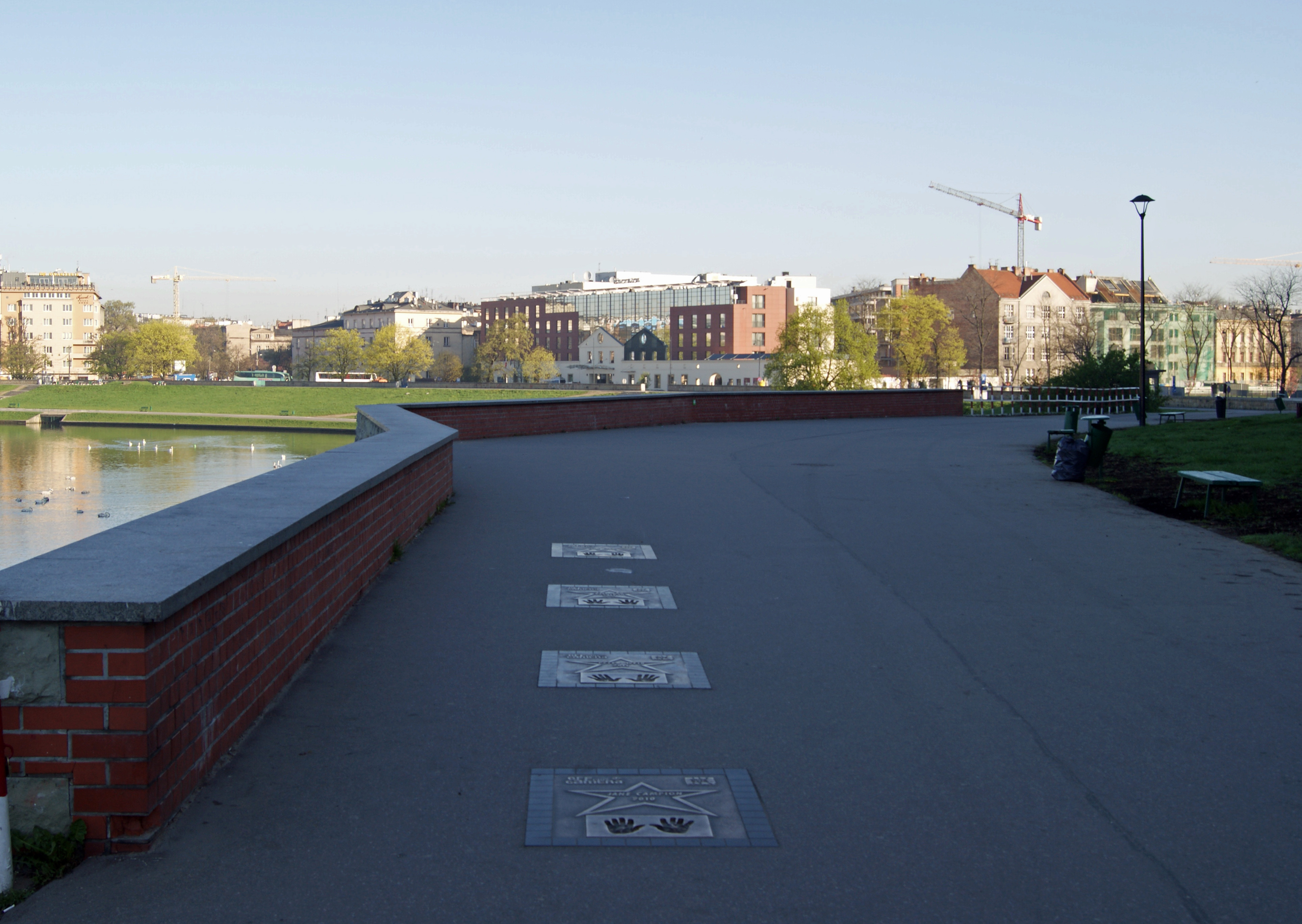 Krakow's Walk of Fame, film director's handprints, Czerwiensk boul., Old Town, Krakow, Poland